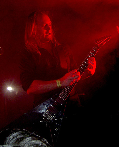 Andy Sneap onstage at black winters day 3 festival - December 2007